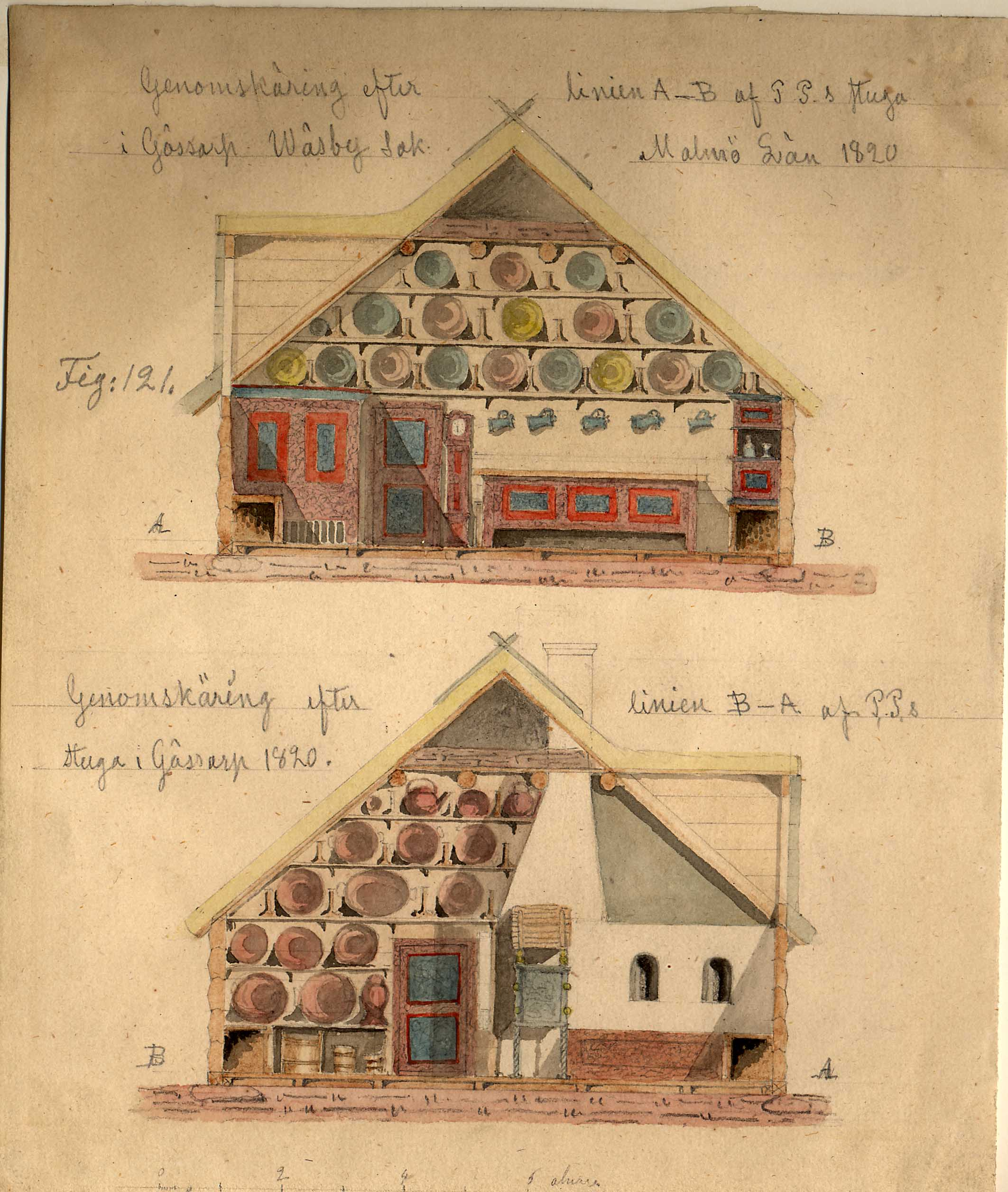 Drawn by Mandelgren himself in the 19th century.